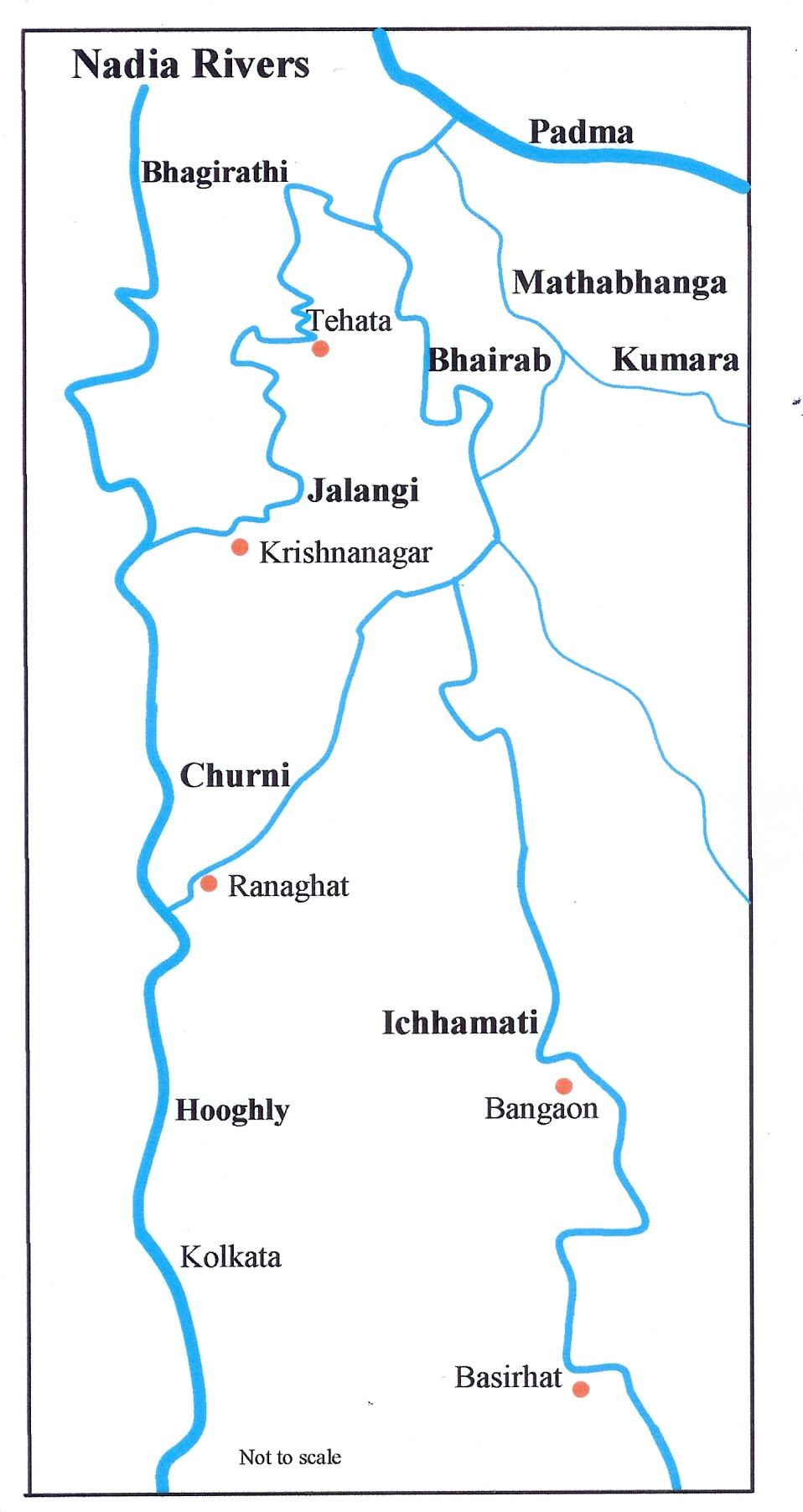 Own map of the rivers in Nadia district and the adjoining areas, based on map of Paschim Banger Nad-Nadi on p. 64 in Bharater Nadi (Rivers of India), 2002, by Dilip Kumar Bandopadhyay, (Bengali), Bharati Book Stall, 6B Ramanath Mazumdar Street, Kolkata, and maps provided with Rivers of Bengal, Vol III, West Bengal District Gazetteers, Higher Education Department, Government of West Bengal, 2002.